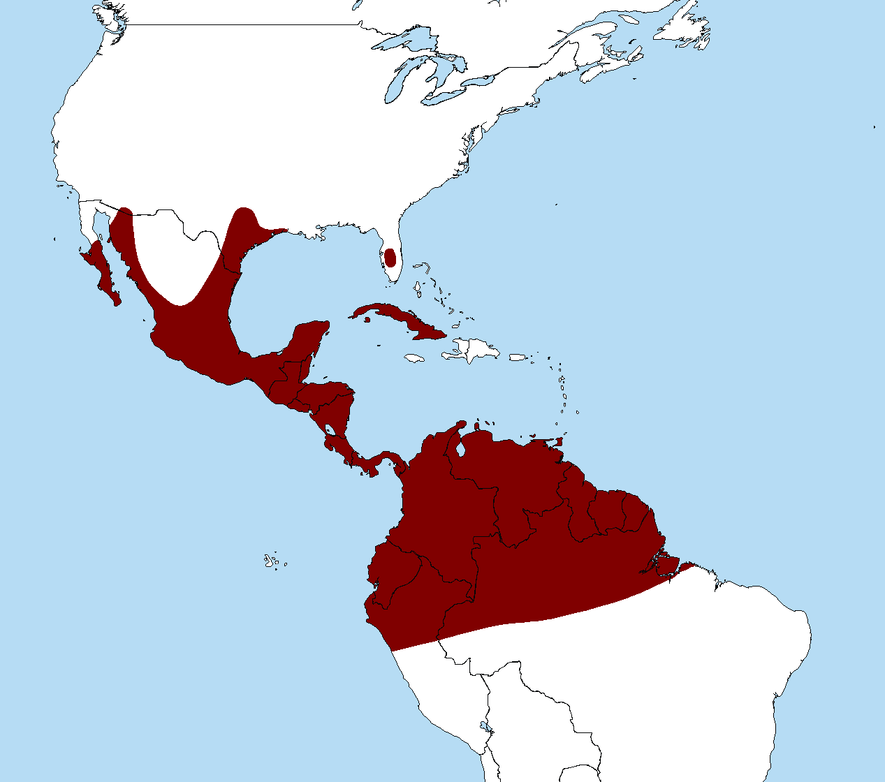 Distribution map of Caracara cheriway. Sources: Dove, C. J., & Banks, R. C. (1999). A taxonomic study of crested caracaras (Falconidae). Wilson Bull. 11 l(3): 330-339; regional field guides.